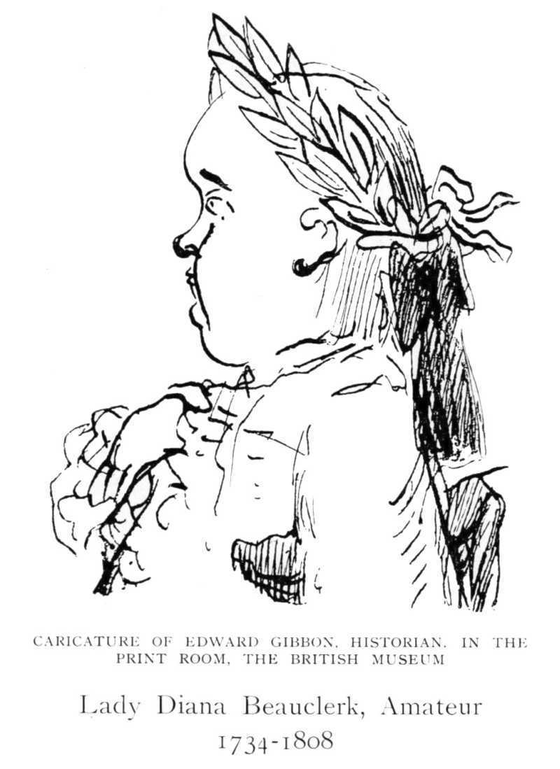 1905 print after page of Women painters of the world, from the time of Caterina Vigri, 1413-1463, to Rosa Bonheur and the present day, by Walter Shaw Sparrow, The Art and Life Library, Hodder & Stoughton, 27 Paternoster Row, London